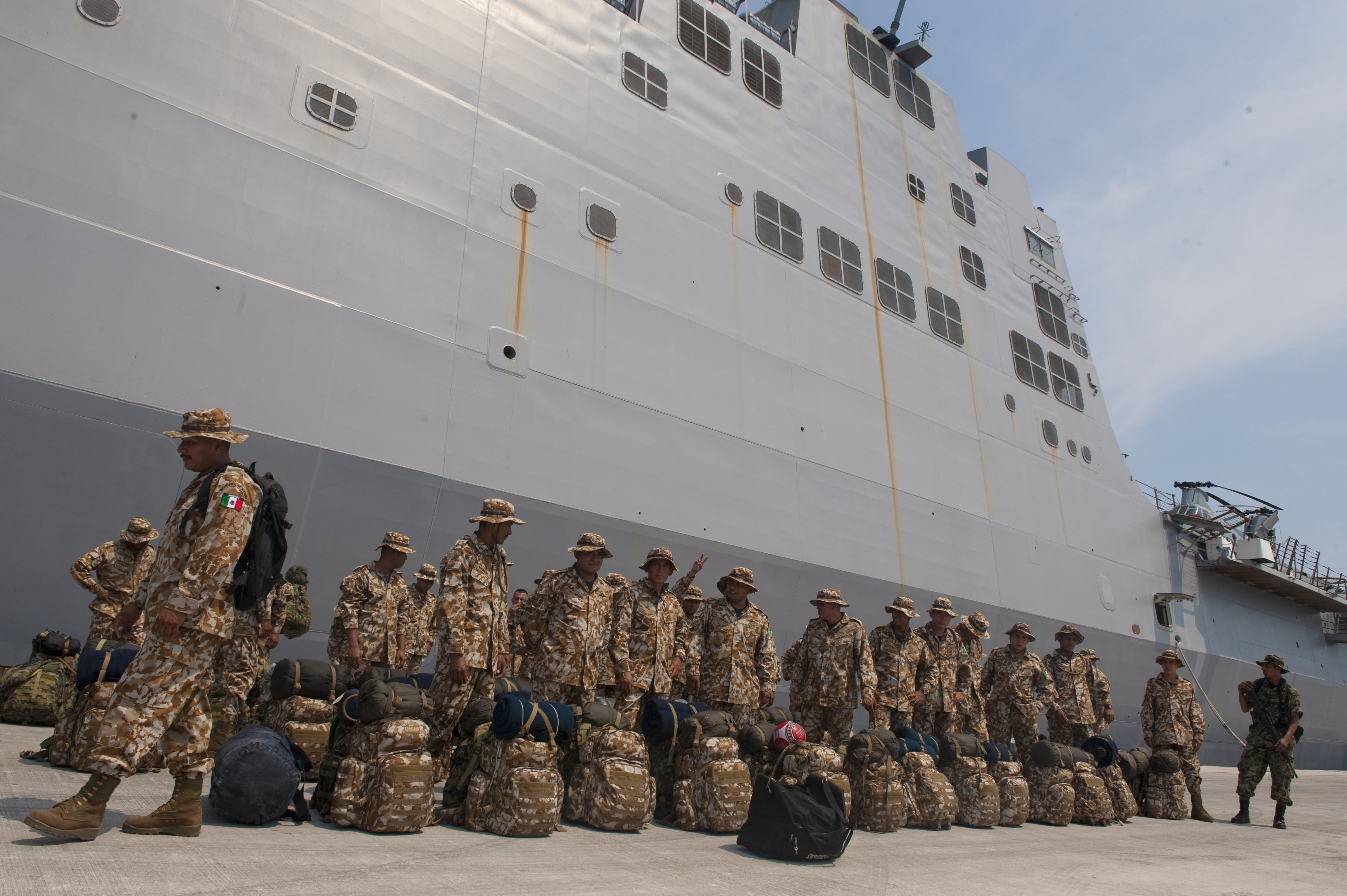 MANZANILLO, Mexico (June 20, 2010) Mexican marines wait to board the amphibious transport dock ship USS New Orleans (LPD 18) for exercises in Manzanillo, Mexico. New Orleans is participating in Southern Partnership Station, an annual deployment of U.S. military training teams to the U.S. Southern Command area of responsibility in the Caribbean and Latin America. (U.S. Navy photo by Mass Communication Specialist 1st Class Brien Aho/Released)